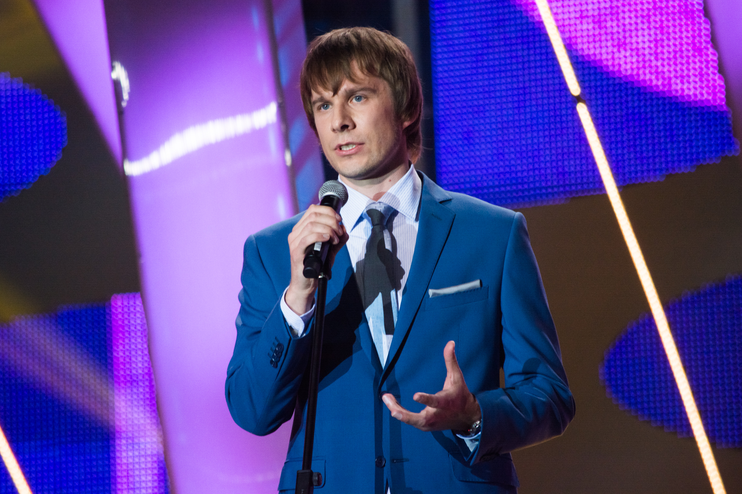 Vladislav Yakovlev at Russian JESC 2015 selection